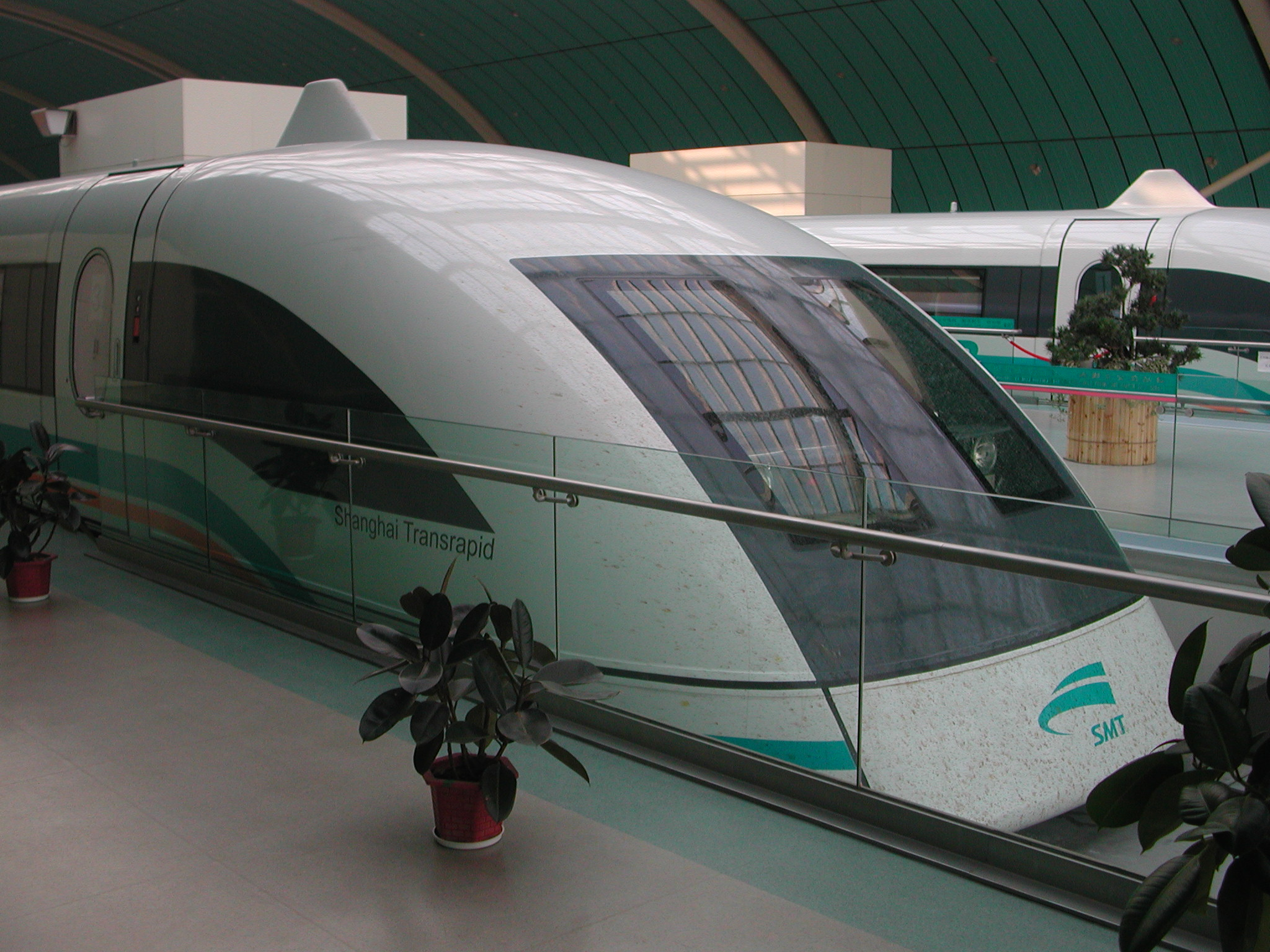 The Shanghai Transrapid at Longyang Road Station, Shanghai.